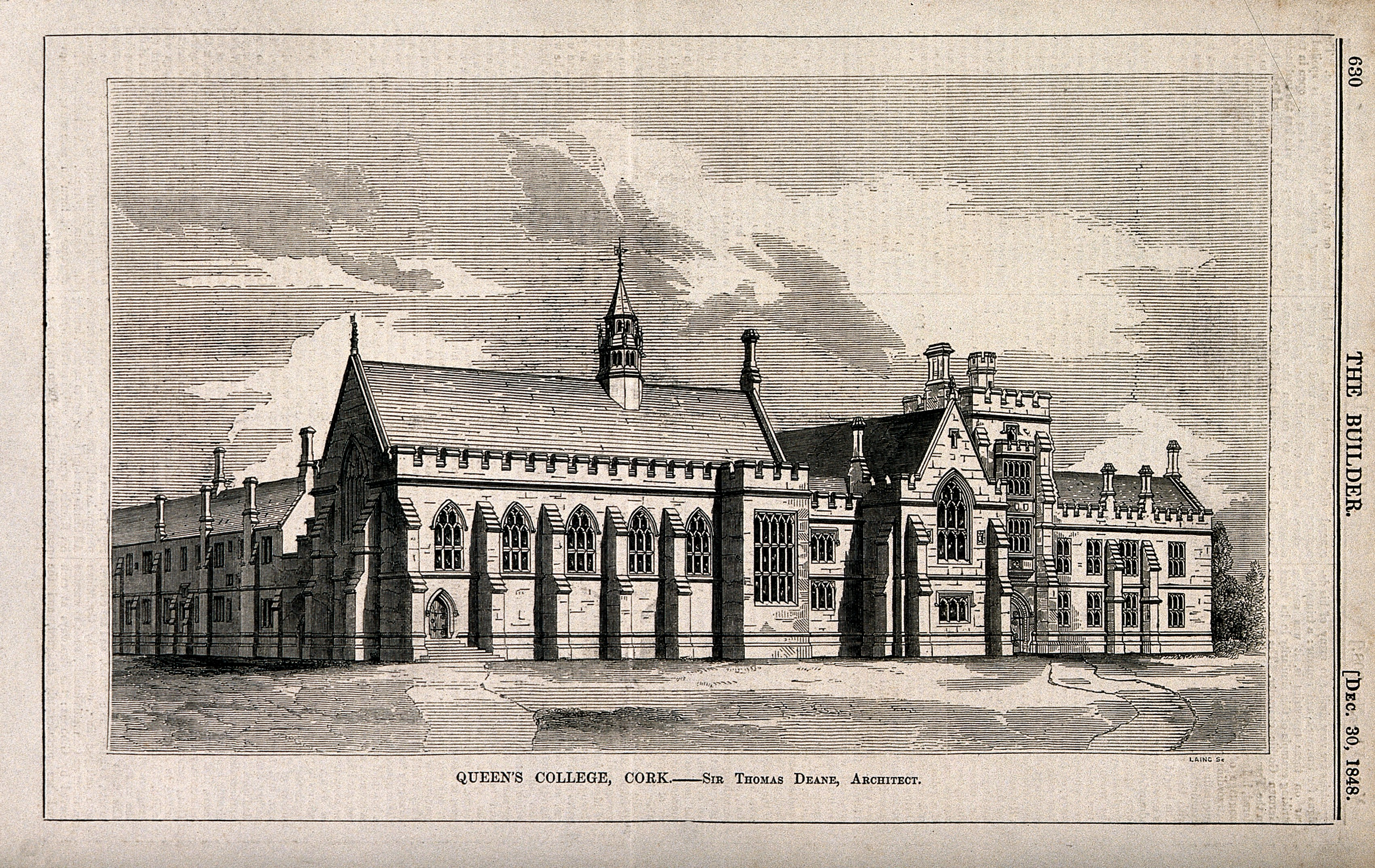 Queen's College, Cork. Wood engraving by J.J. Laing, 1848, after T. Deane. Iconographic Collections Keywords: Thomas Deane; John Joseph Laing